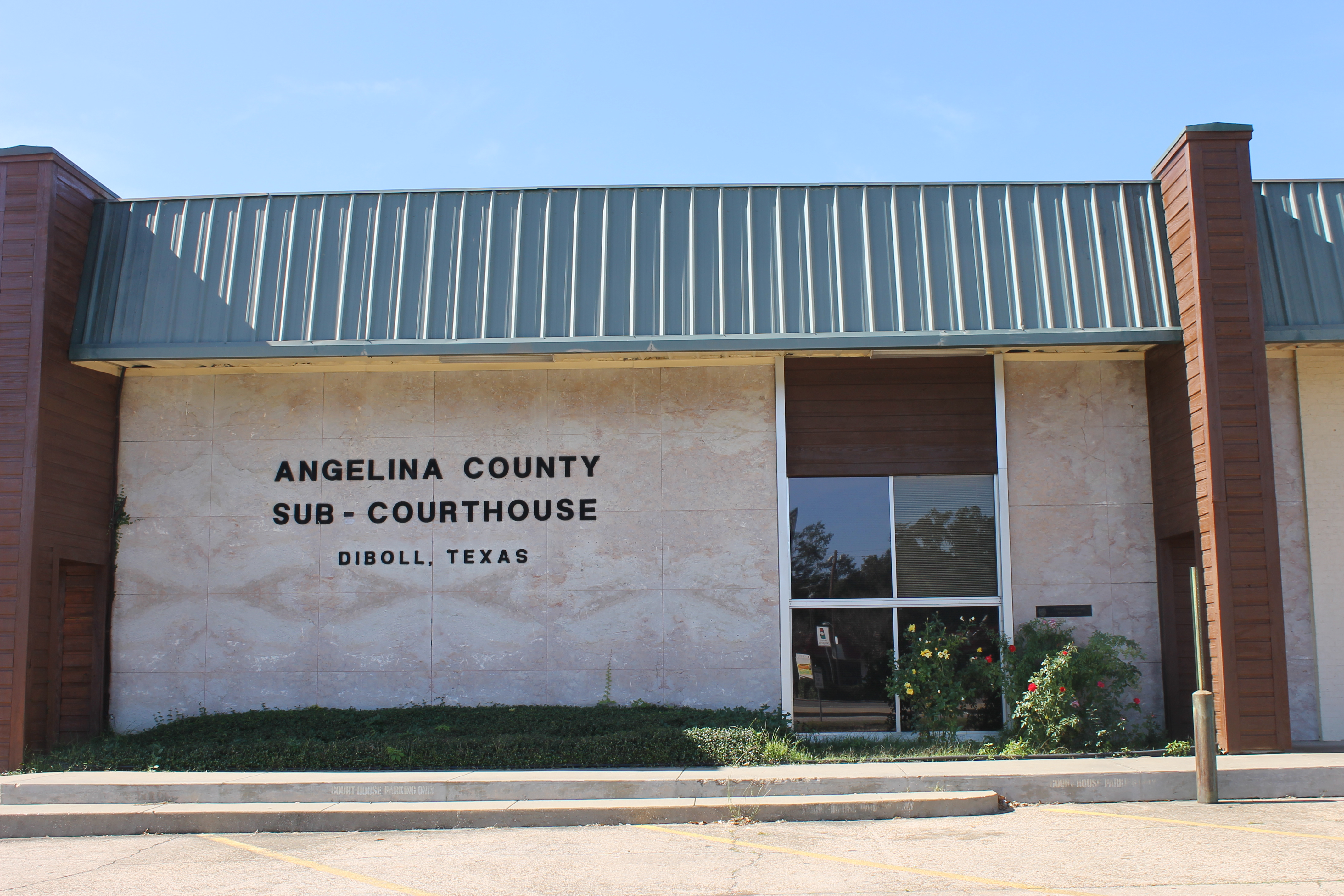 Angeline County Sub-courthouse in Diboll, TX